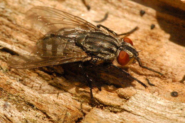 Brachicoma devia from Commanster, Belgian High Ardennes .